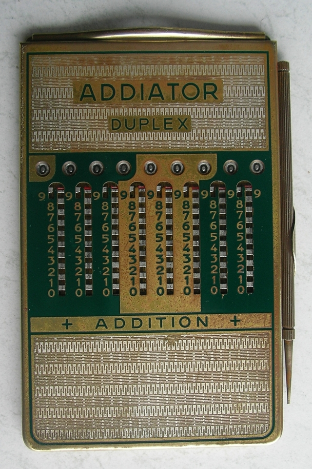 Addiator Duplex a mechanical calculator